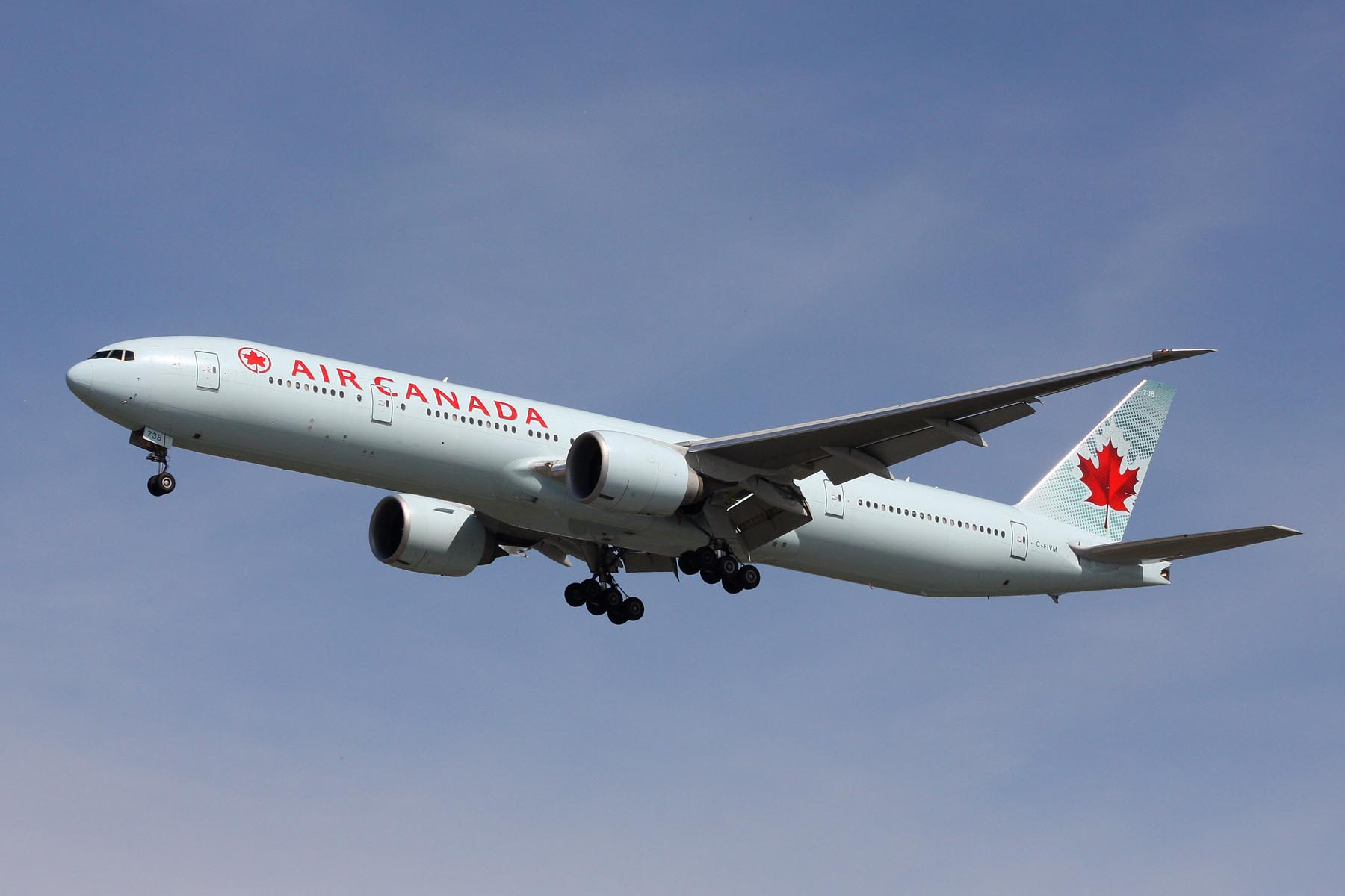 A picture of an airplane (name of it is on the file name).